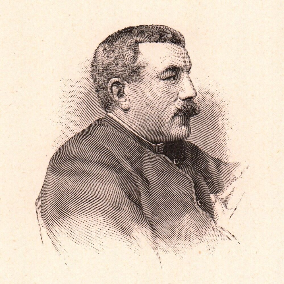 French writer Alfred Vallette (1858-1935)